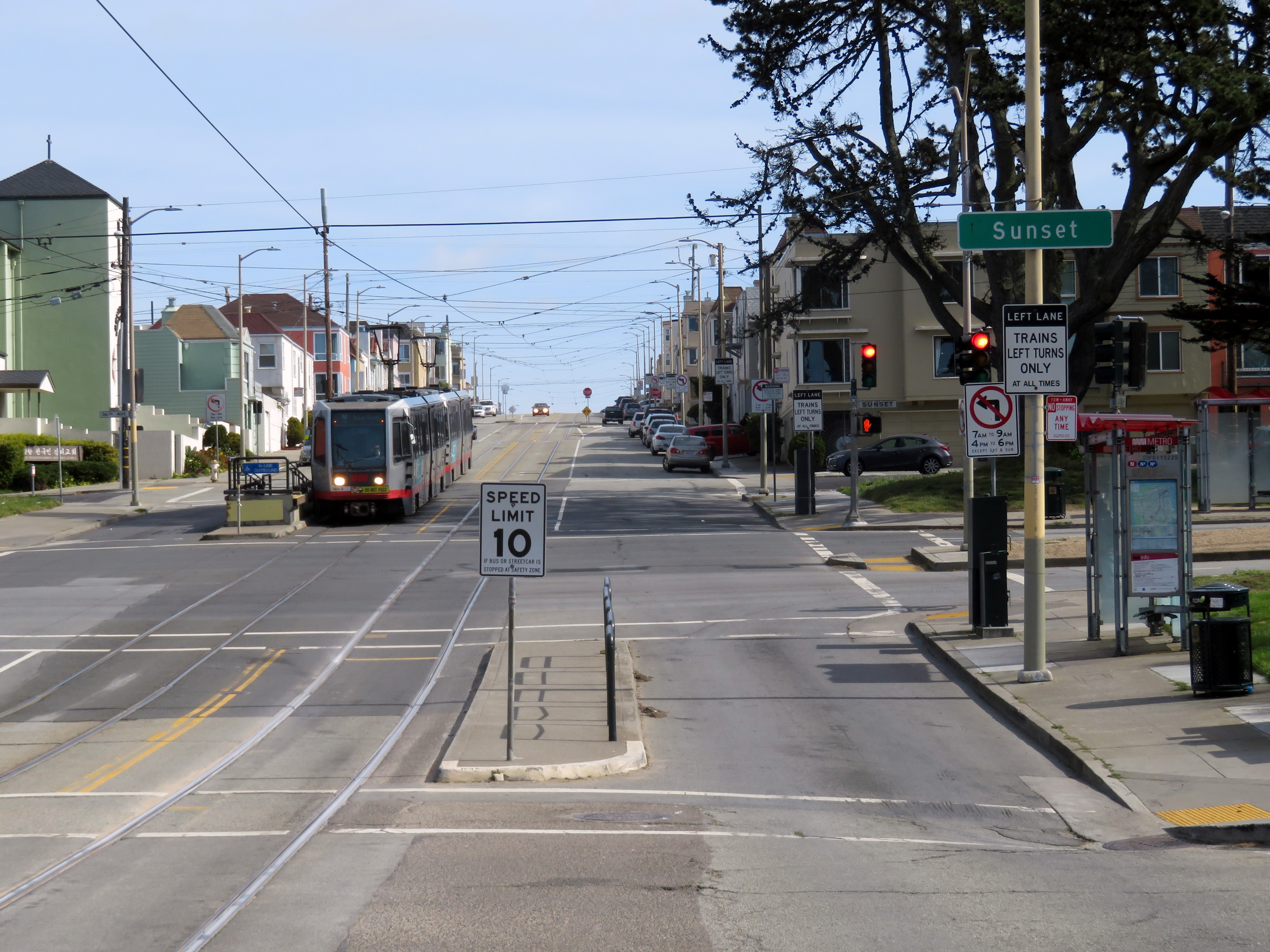 An outbound N Judah train at Judah and Sunset station in February 2018. The curb-level section of the inbound platform is at center.